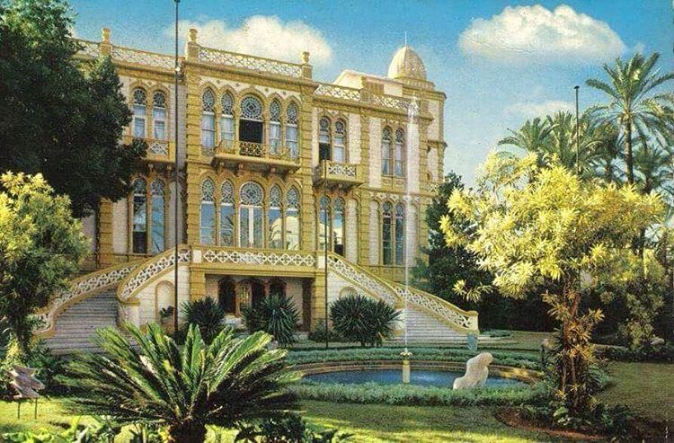 Sursock Museum ,Beirut 1970